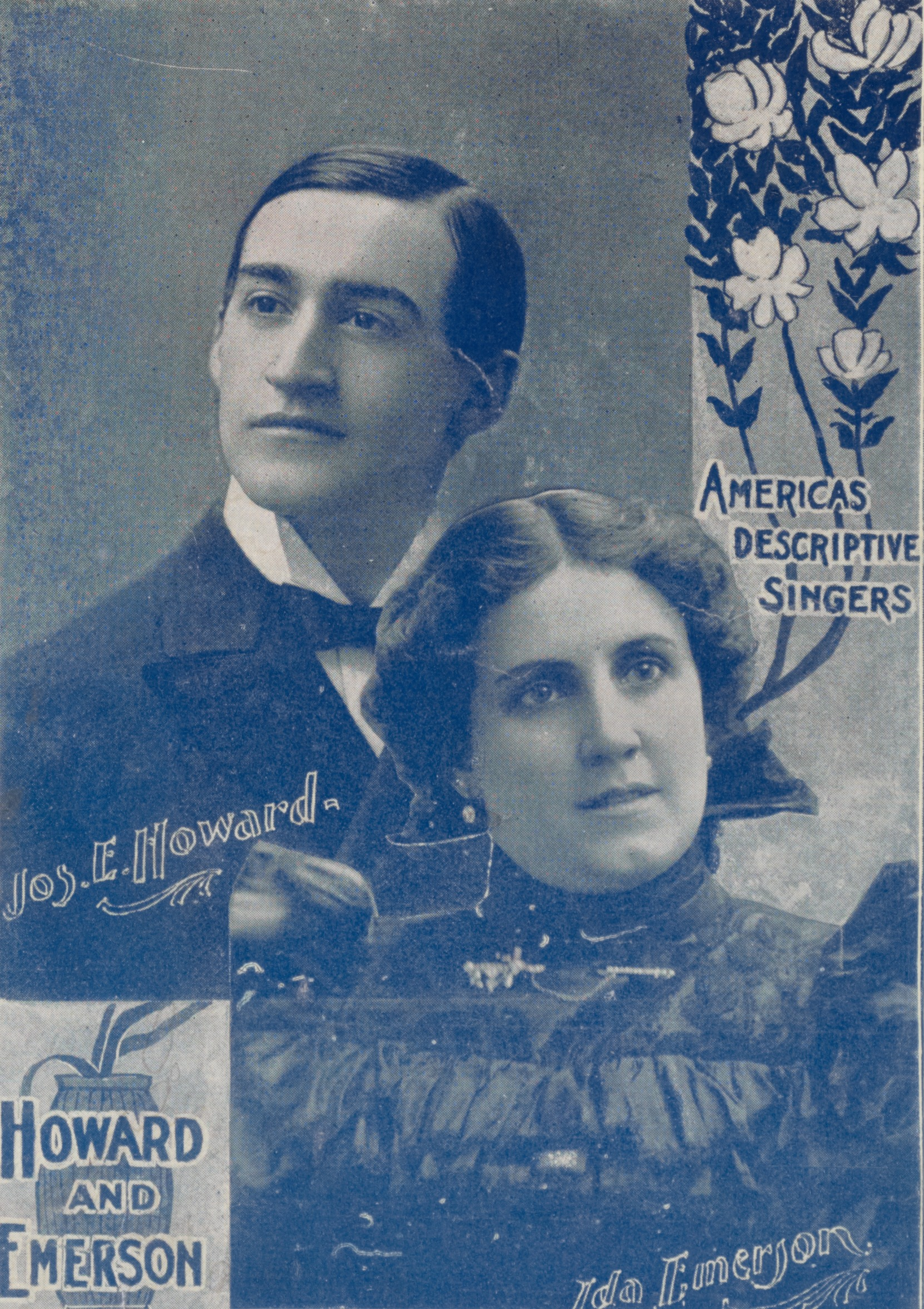 On cover: Jos. E. Howard and Ida Emerson. Statement of responsibility : words by Harry Braisted ; music by Stanley Carter.